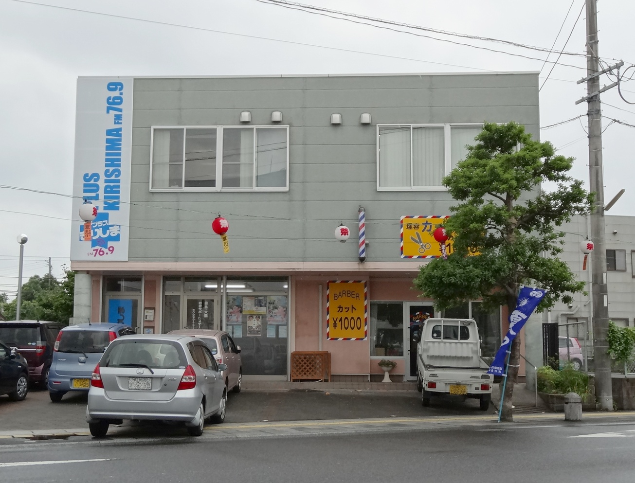 FM Kirishima, also known as "Plus Kirishima" is a Community FM Radio Station in Kirishima City, Kagoshima Prefecture, Japan.